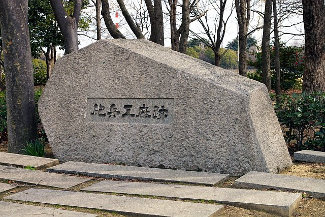 Memorial Monument, Imperial Arsenal Works Osaka.